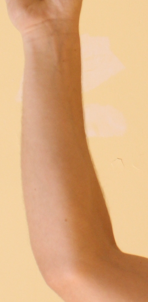 Forearm